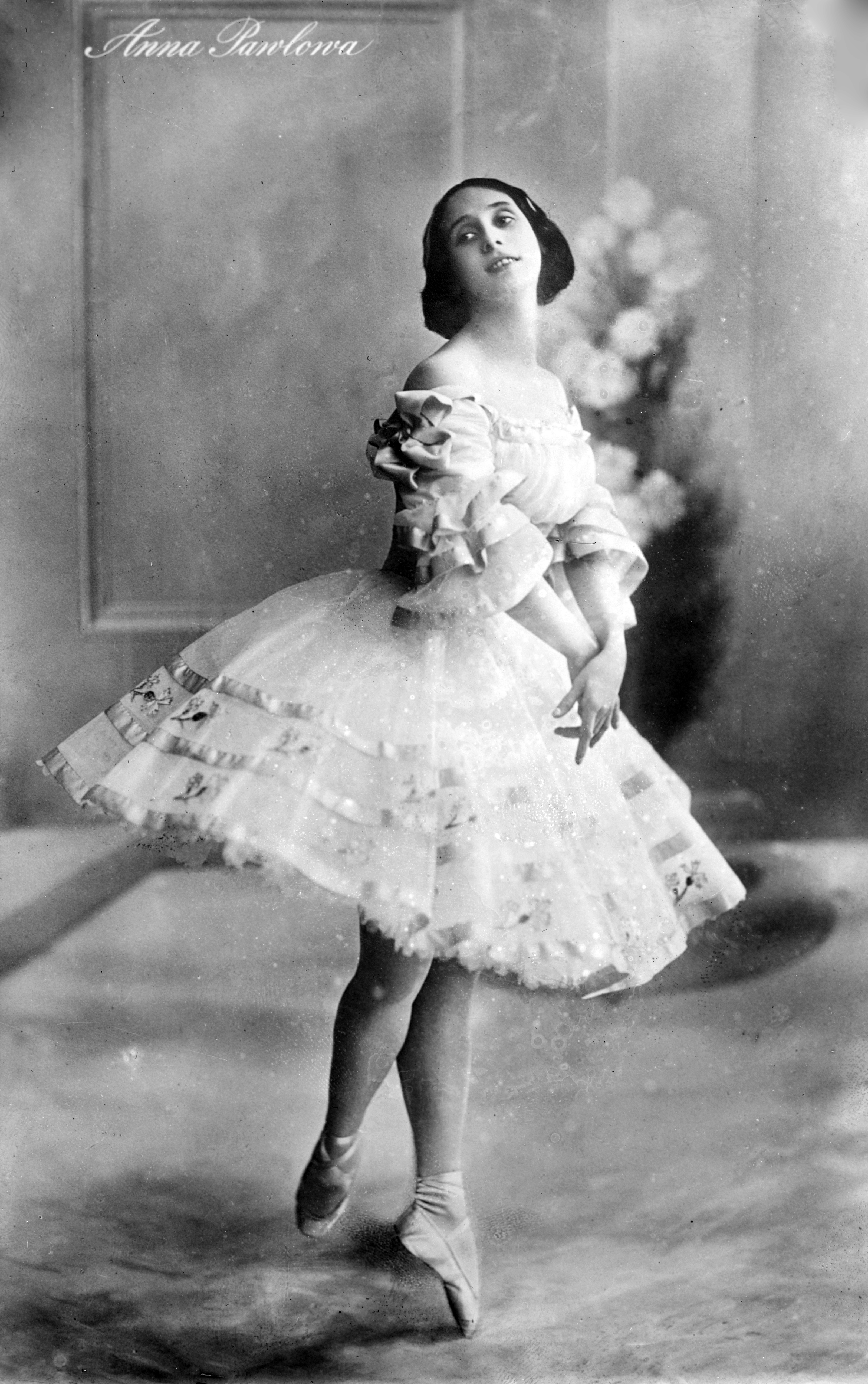 Anna Pavlova in Giselle. Berlin, c. 1909